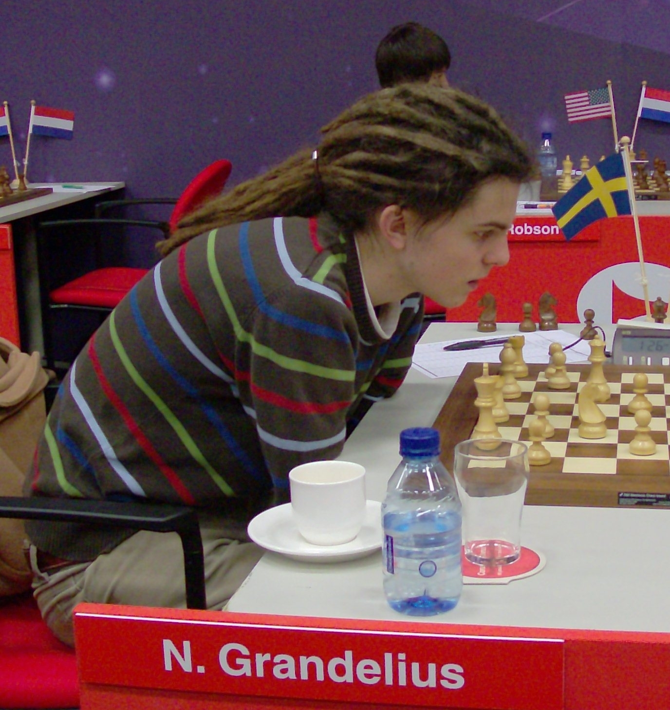 Nils Grandelius, chess player from Sweden